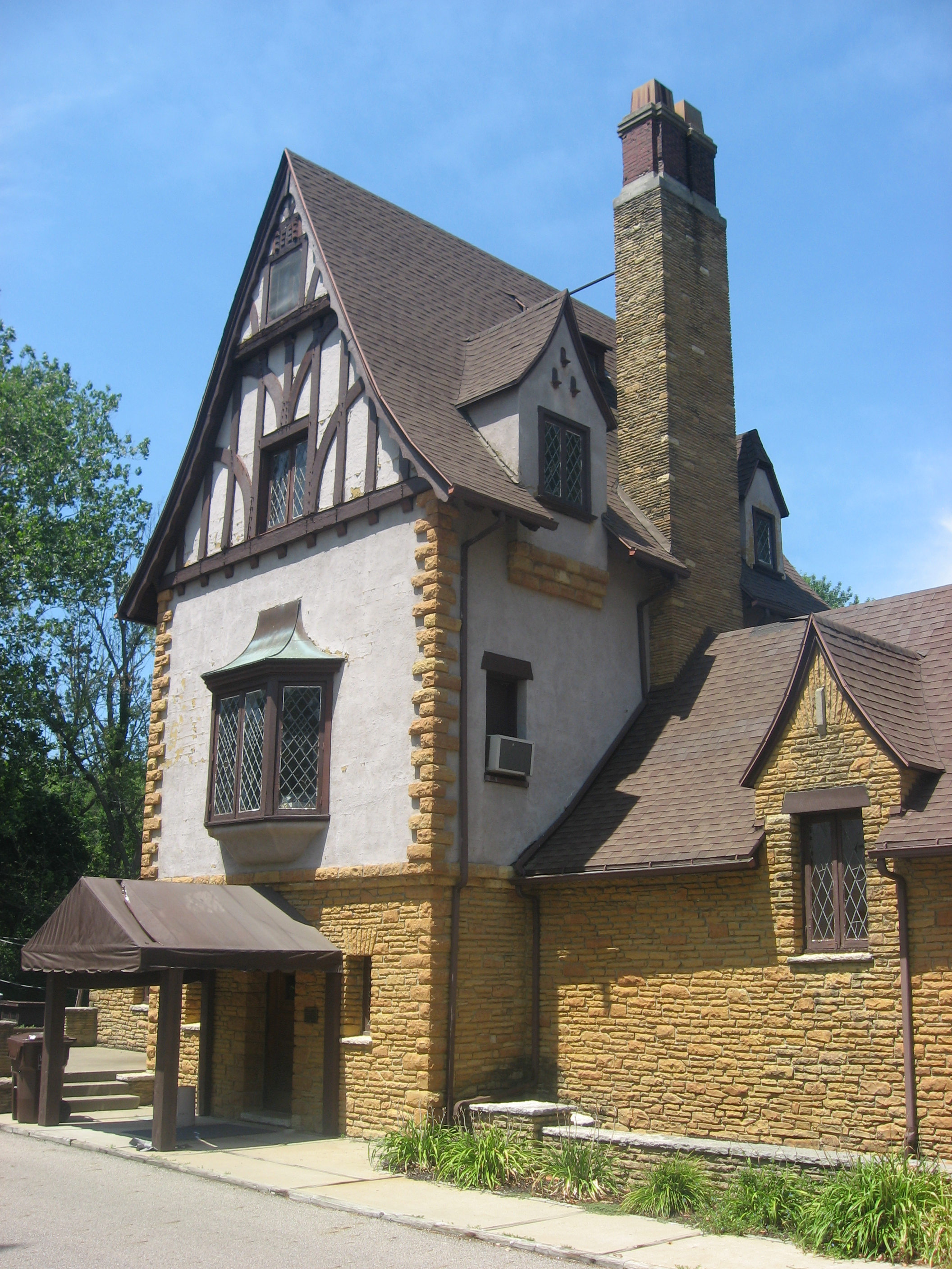 Front of the Honeywell Studio, located at 378 N. State Road 15 in Wabash, Indiana, United States. Built in 1936 as the clubhouse for a golf course, it is listed on the National Register of Historic Places.